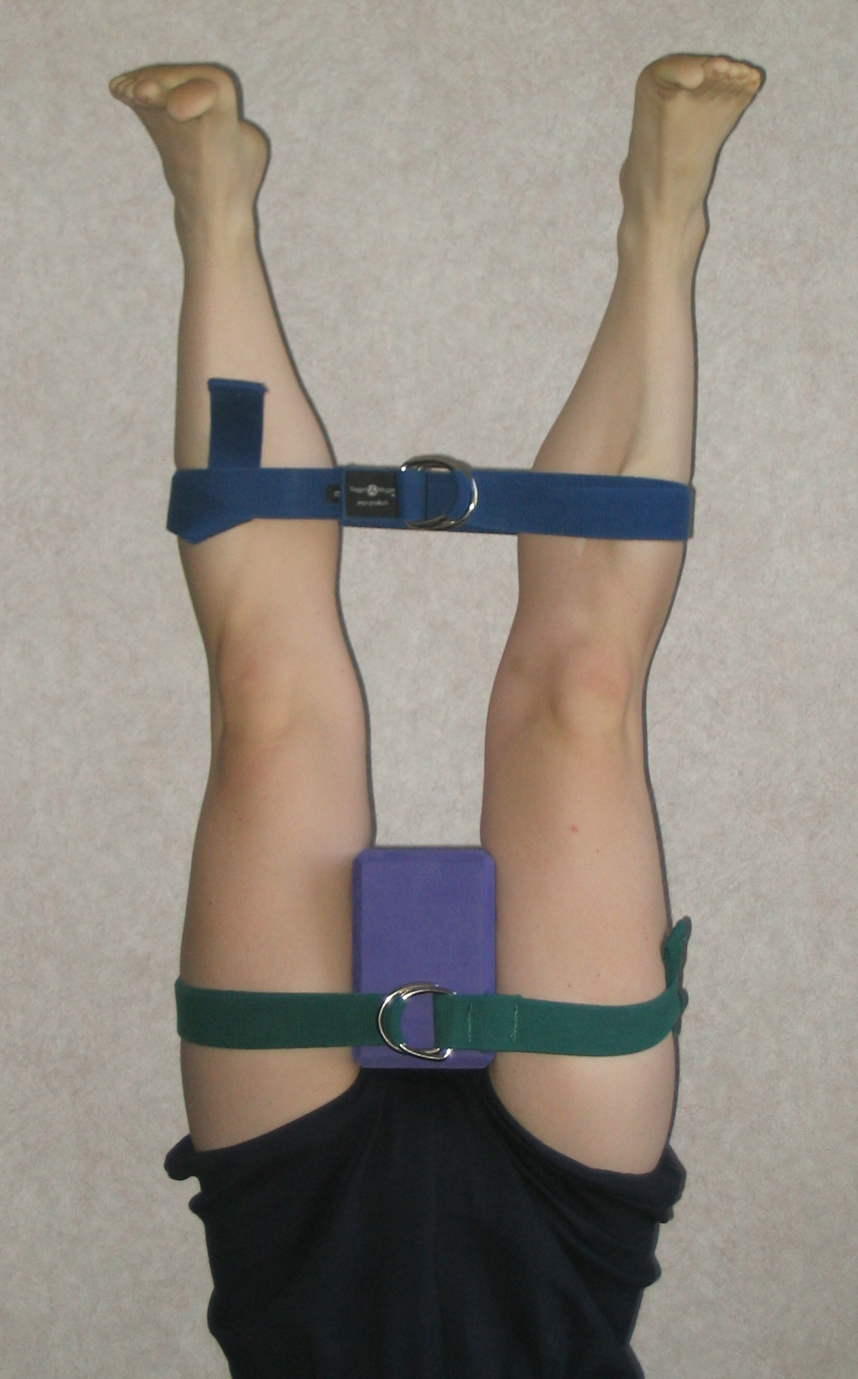 Legs constrained with belts and a bolster in an Iyengar Yoga pose.